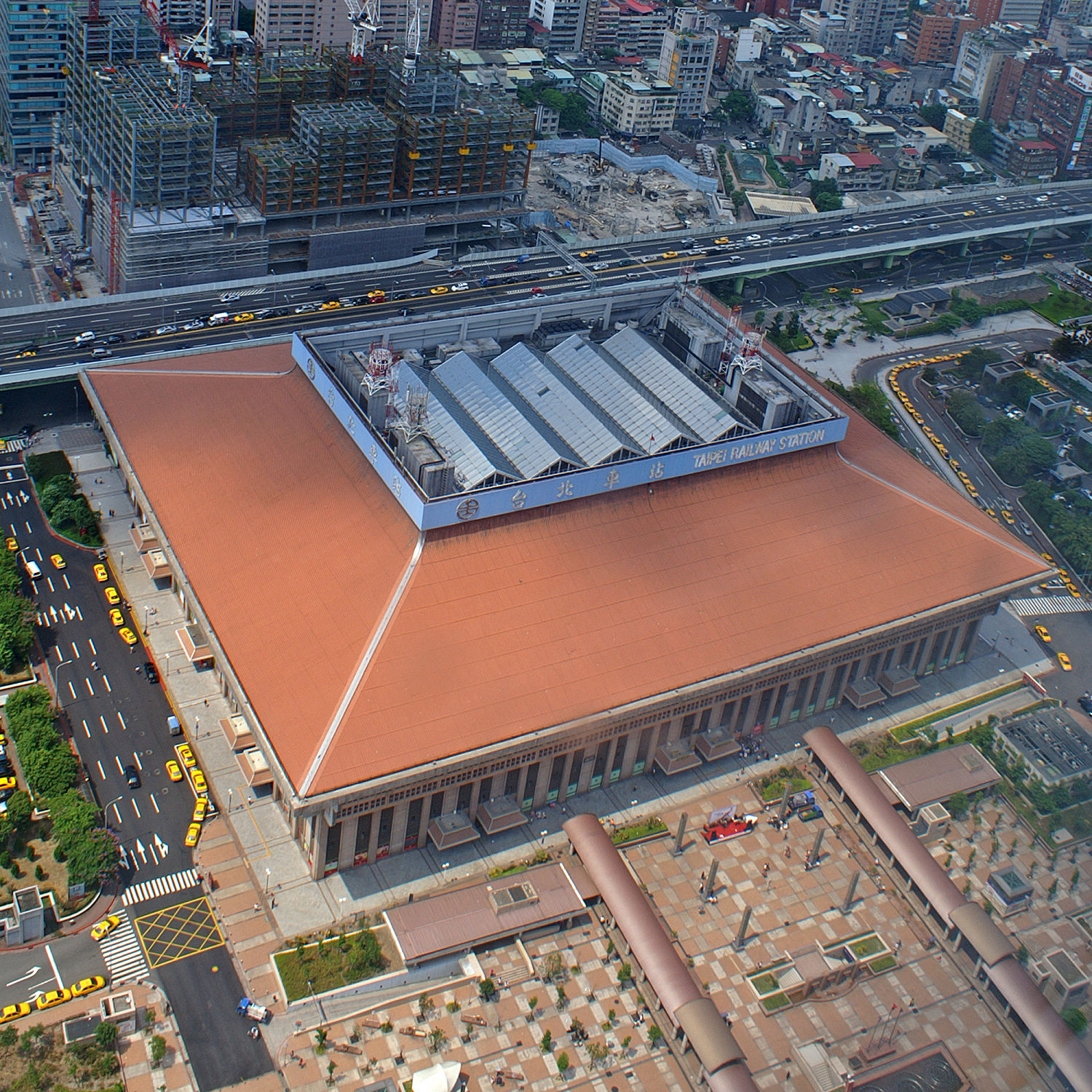 Taipei Station and the construction site of Jing-Jan Building view from the Shin Kong Life Tower.中文（台灣）: 由新光人壽保險摩天大樓俯瞰臺北車站與京站大樓工地。Bân-lâm-gú: Tâi-pak Tshia-tsām.